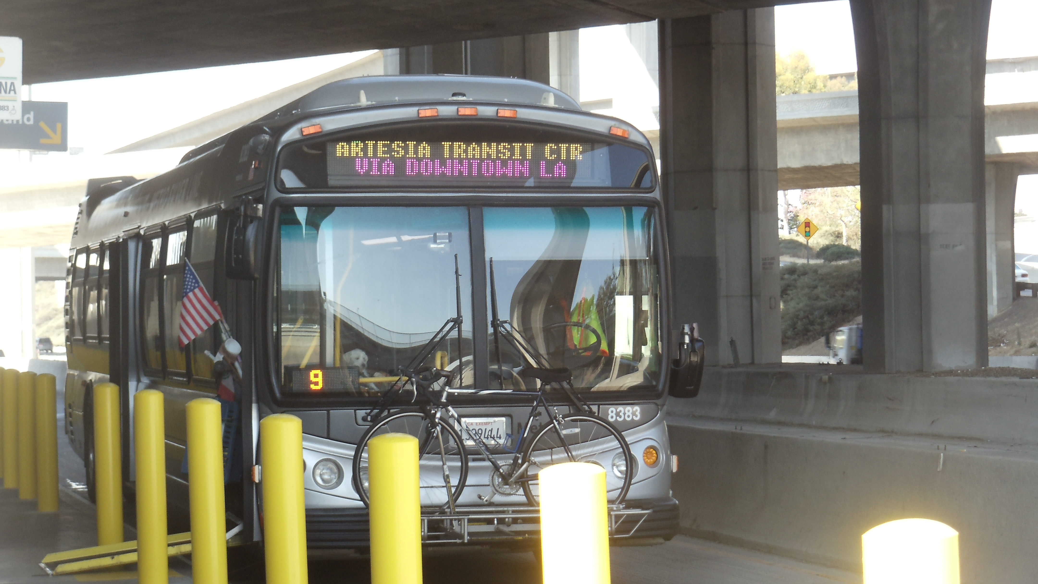 Wheelchair passenger boarding the Metro Silver Line.